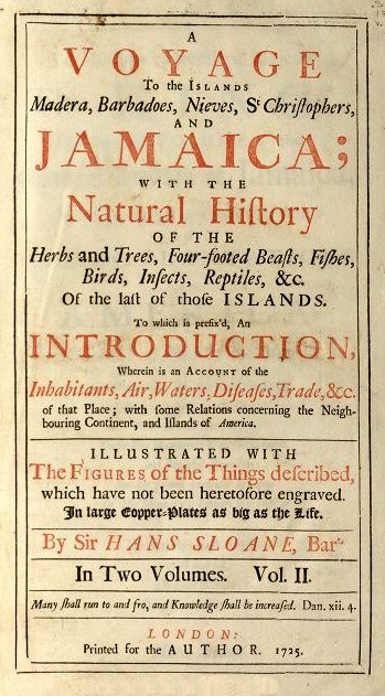 Title page of "Voyage to the Islands Madera, Barbadoes, Nieves, St. Christophers and Jamaica"